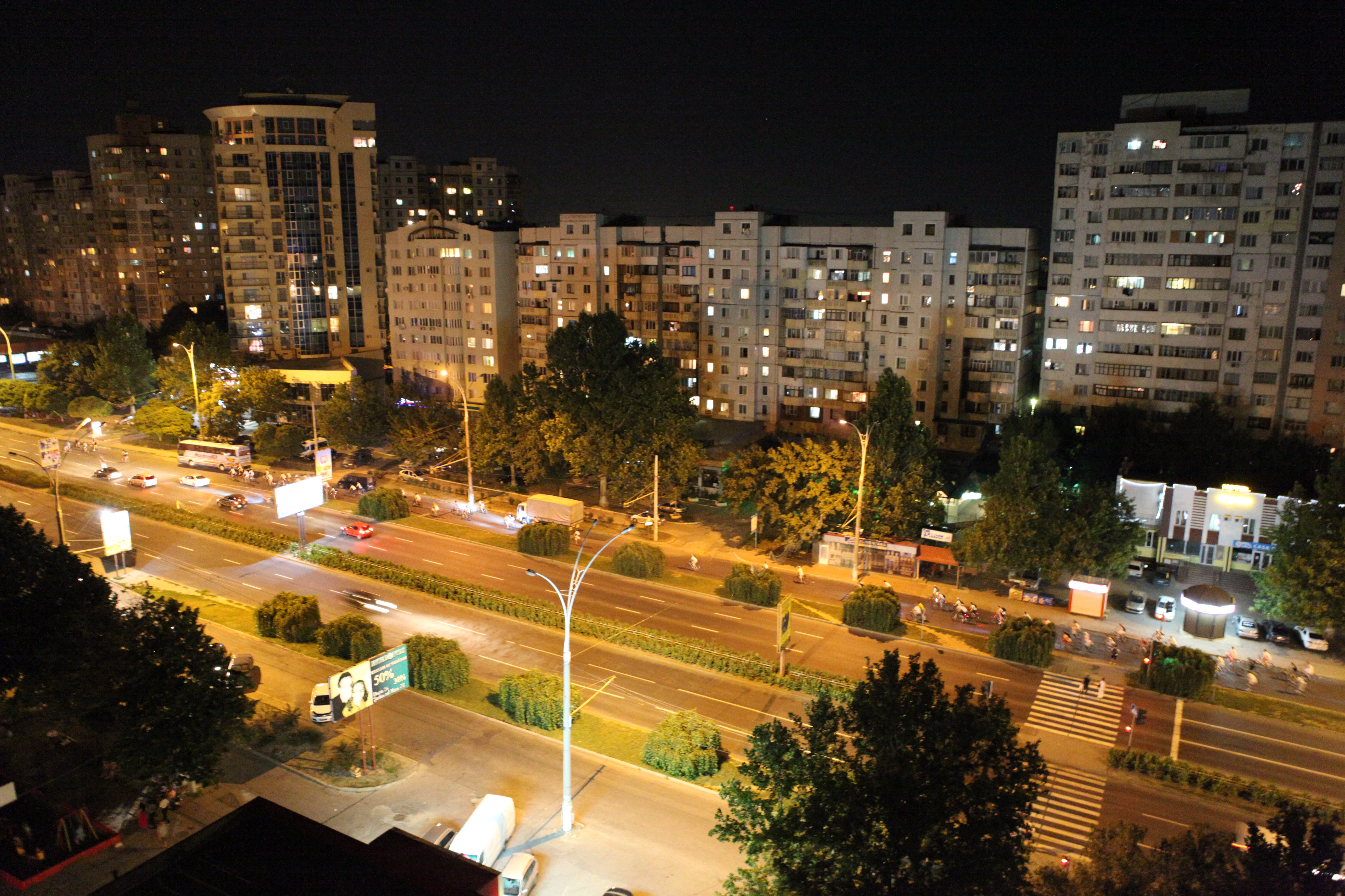 'White Night Ride' in Chișinău, August 9th, 2013